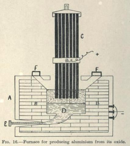 Furnace for producing aluminium from its oxide.